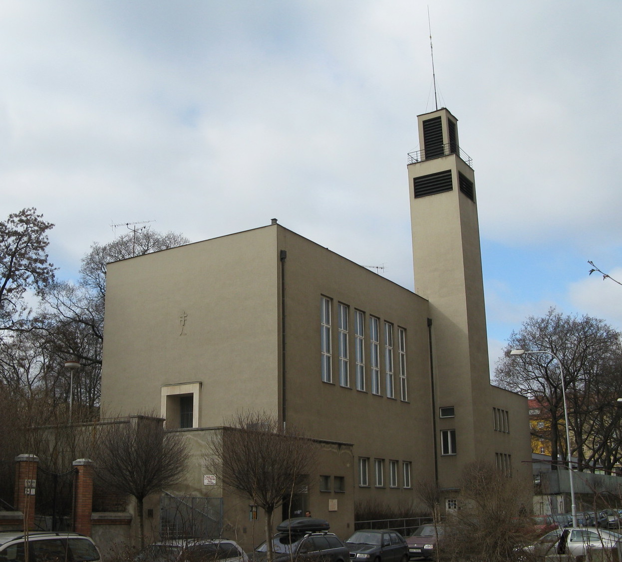 Building of the Czechoslovak Hussite Church, Brno, Botanická Street